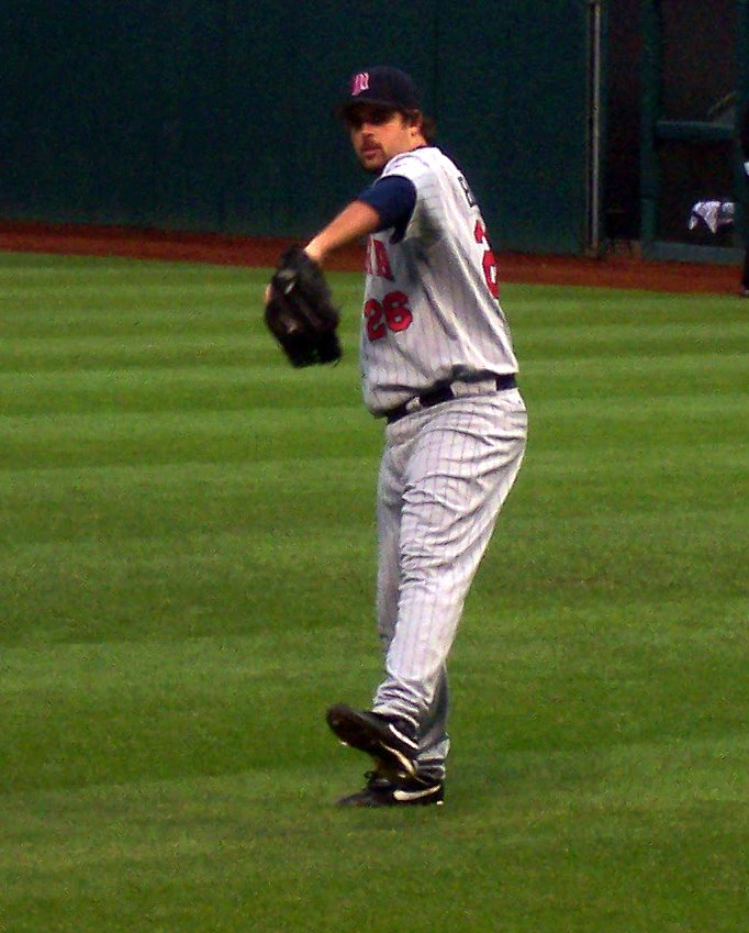 I took this image myself at Jacobs Field of Boof Bonser.